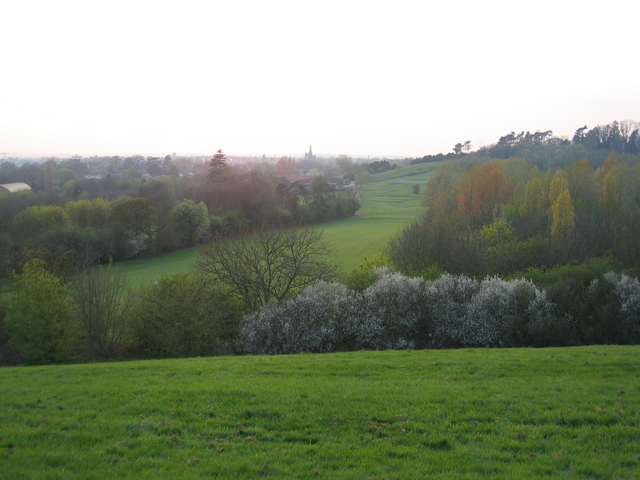 A view of Newbold Comyn Golf Course from Beacon Hill, Leamington Spa